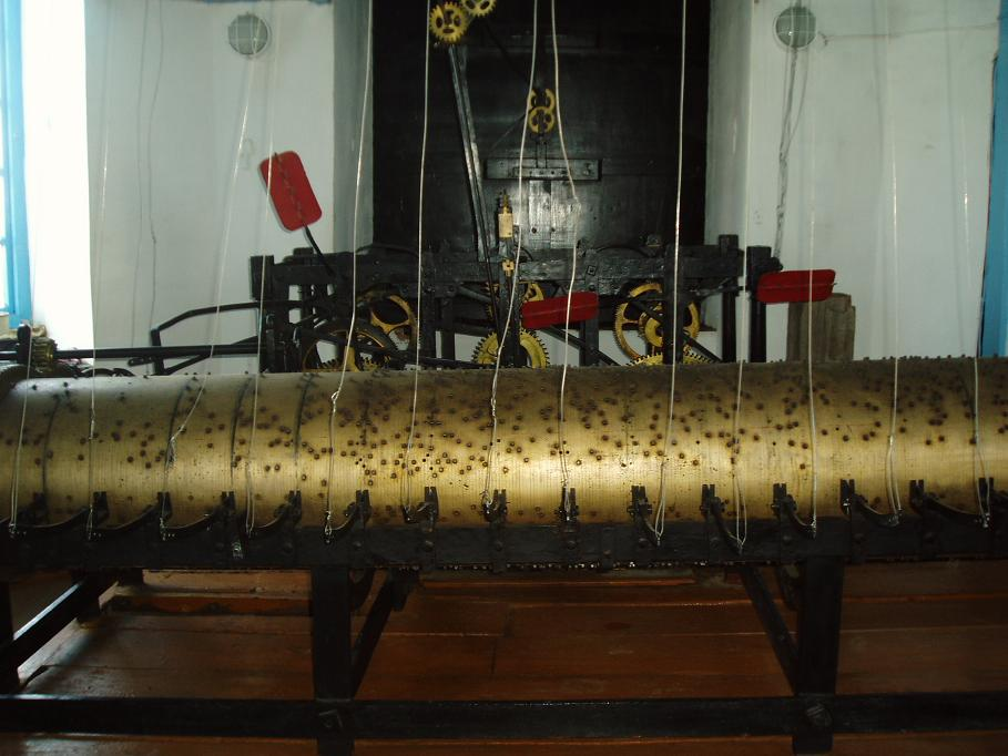 Nevyansk tower in Sverdlovsk oblast, Russia: the machine which operates the bells (clocks).